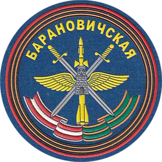 1st Mixed Air Division shoulder sleeve patch (Russia)